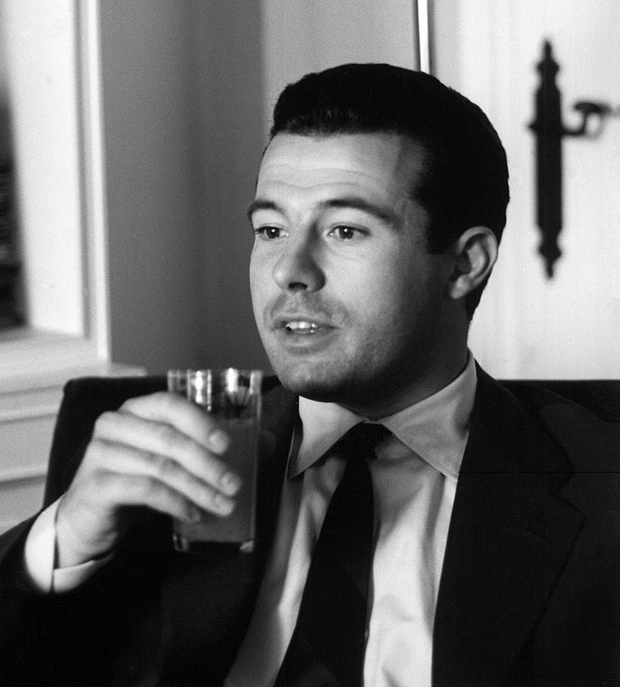 Alfonso, Duke of Anjou and 1st Duke of Cadiz, Grandee of Spain drinking from a glass. Madrid, 1963